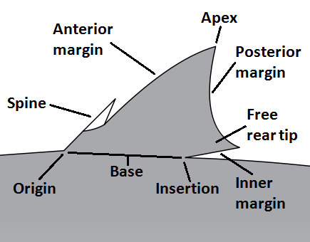 Shark dorsal fin with parts labeled.